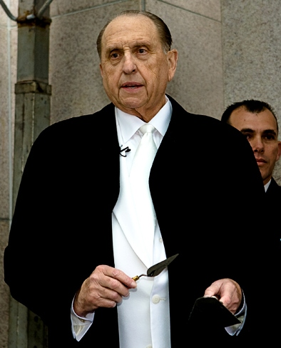 Thomas S. Monson, taken during the laying of the Curitiba Temple Corner Stone.